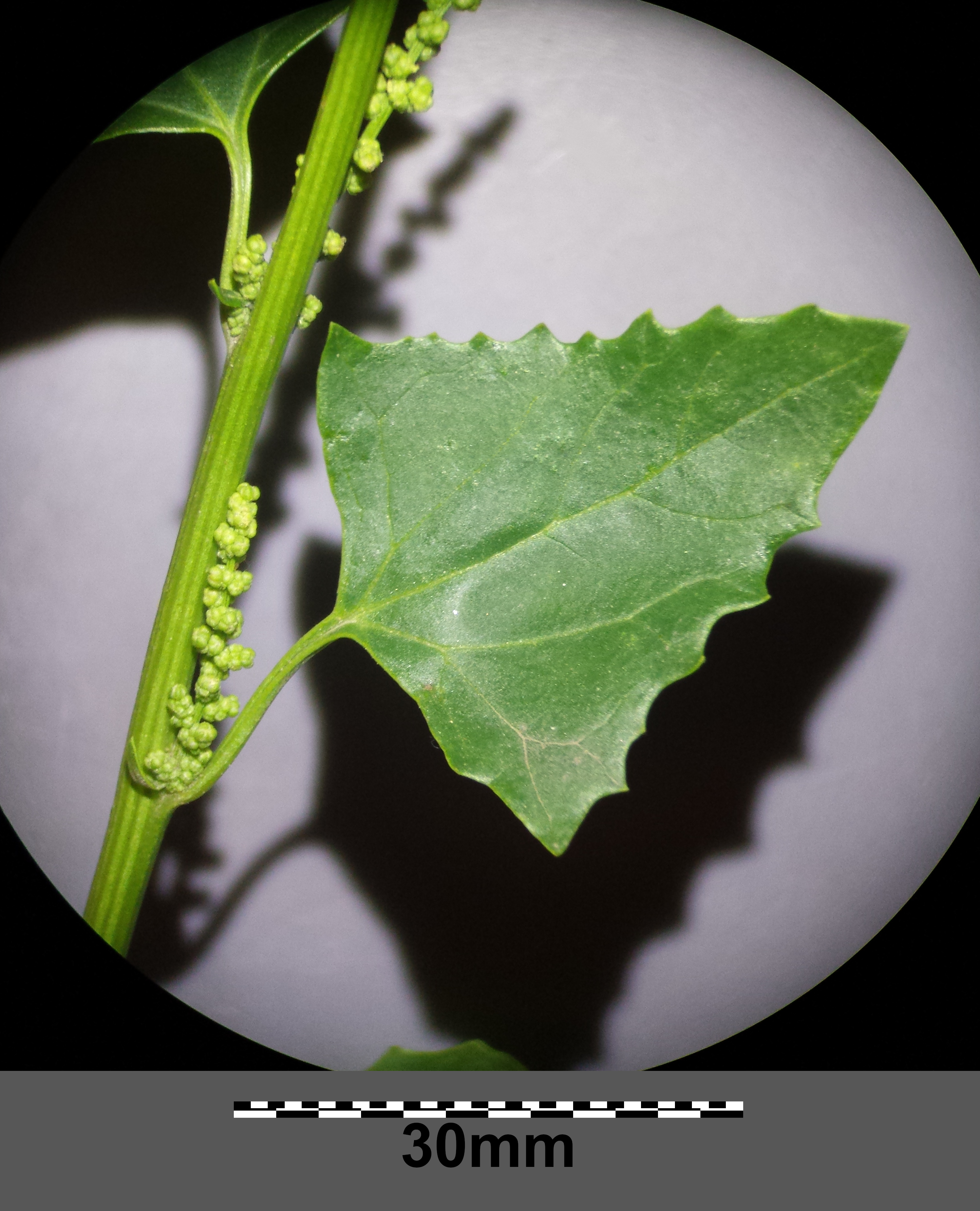 Stem with leaf Taxonym: Chenopodium urbicum ss Fischer et al. EfÖLS 2008 ISBN 978-3-85474-187-9 Location: next to Wörtenlacke near Apetlon, district Neusiedl am See, Burgenland, Austria - ca. 120 m a.s.l. Habitat: field